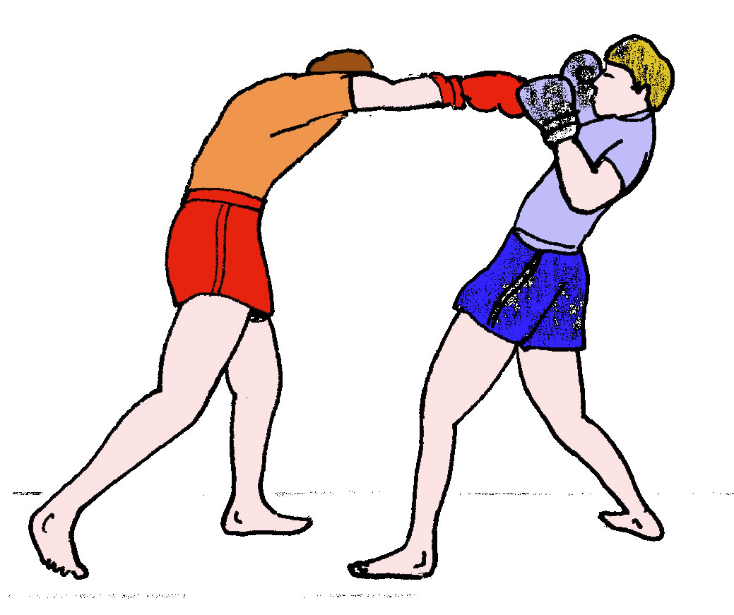 Pulling away